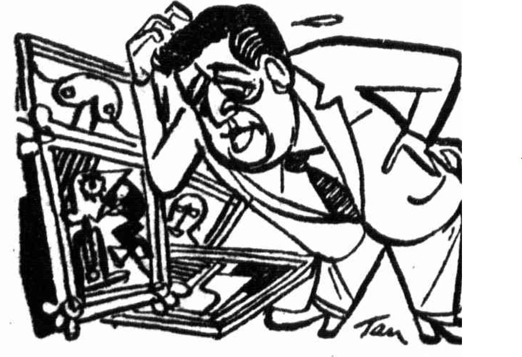 The cartoonist showed compassion for Claude Bonin-Pissarro and the challenges he was facing in the first stages of the travelling exhibition French Paintings Today in February 1953.